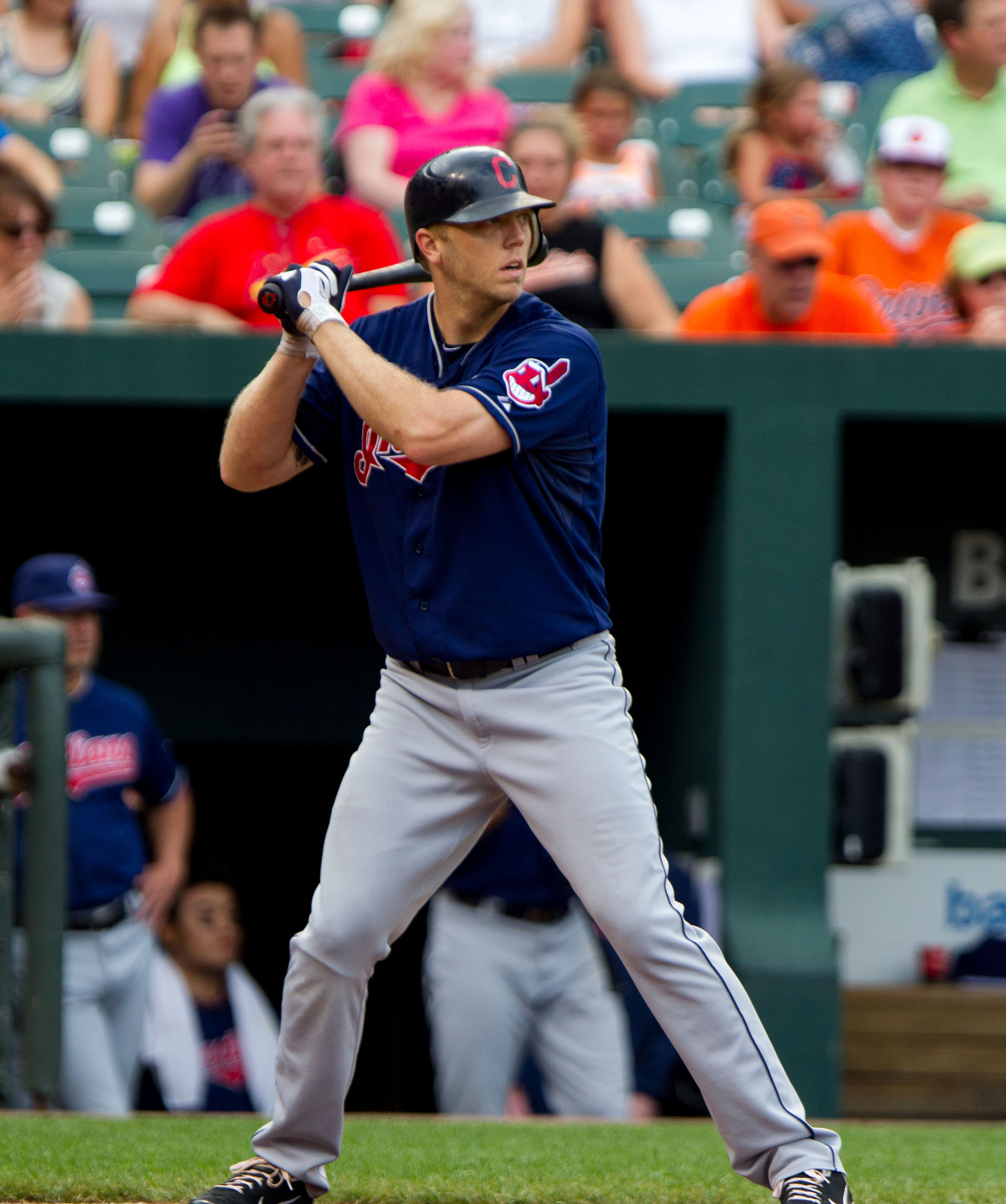 Shelley Duncan